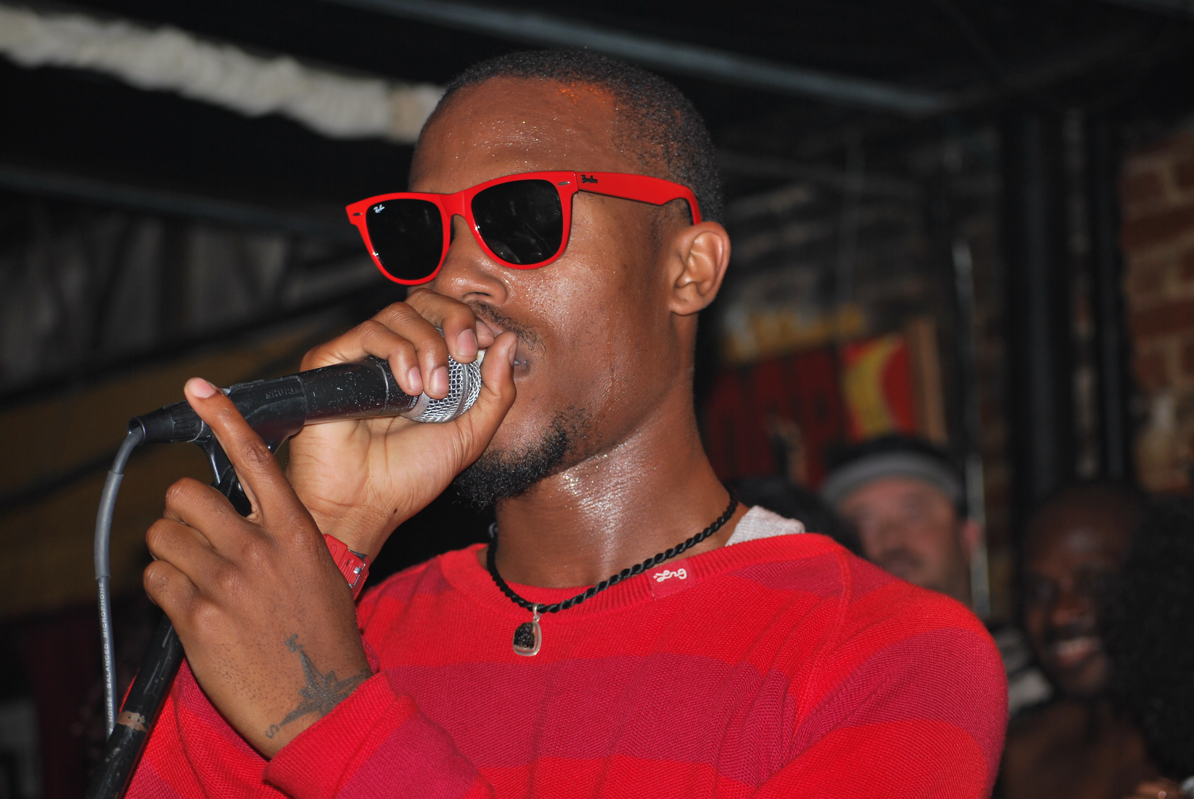 American singer/rapper B.o.B